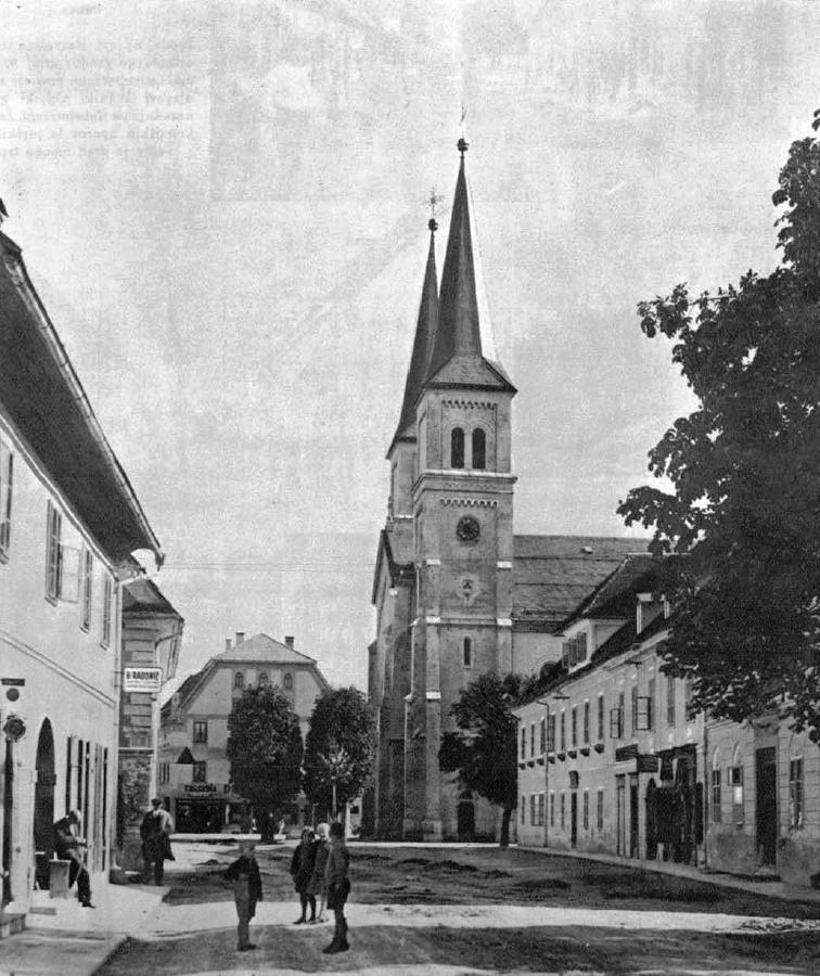 Ribnica